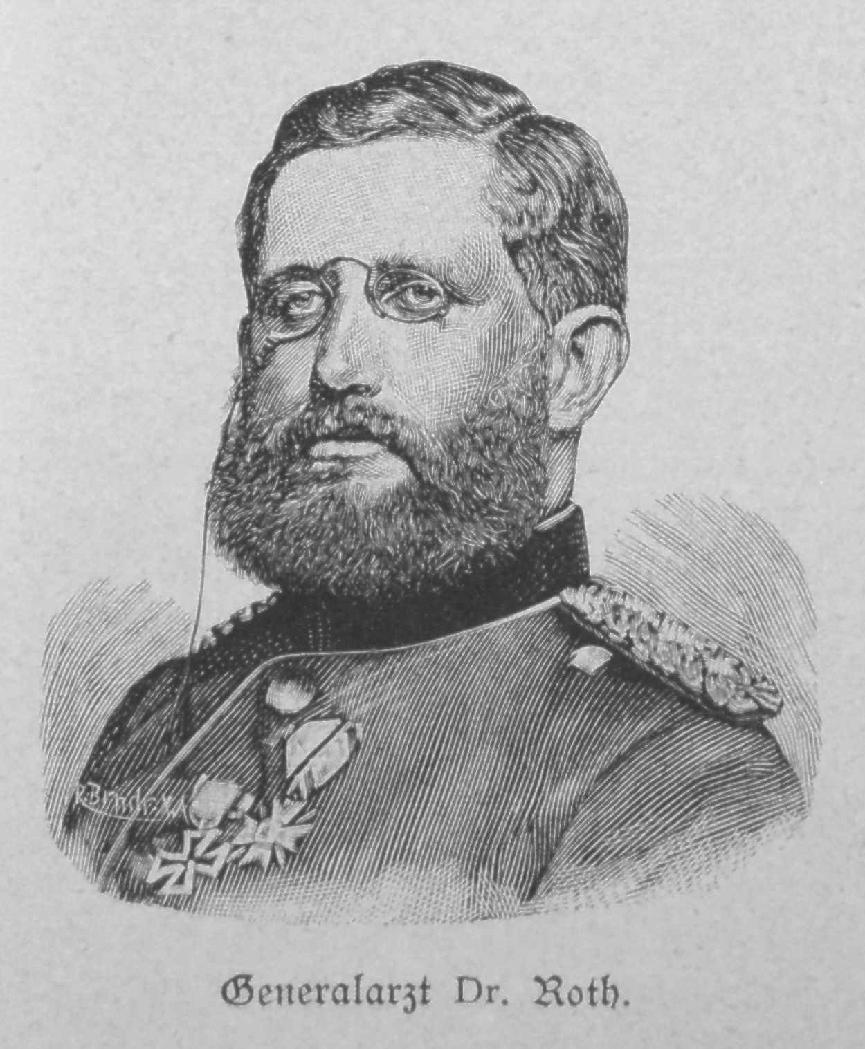 brigadier general of Medical Corps MD Roth